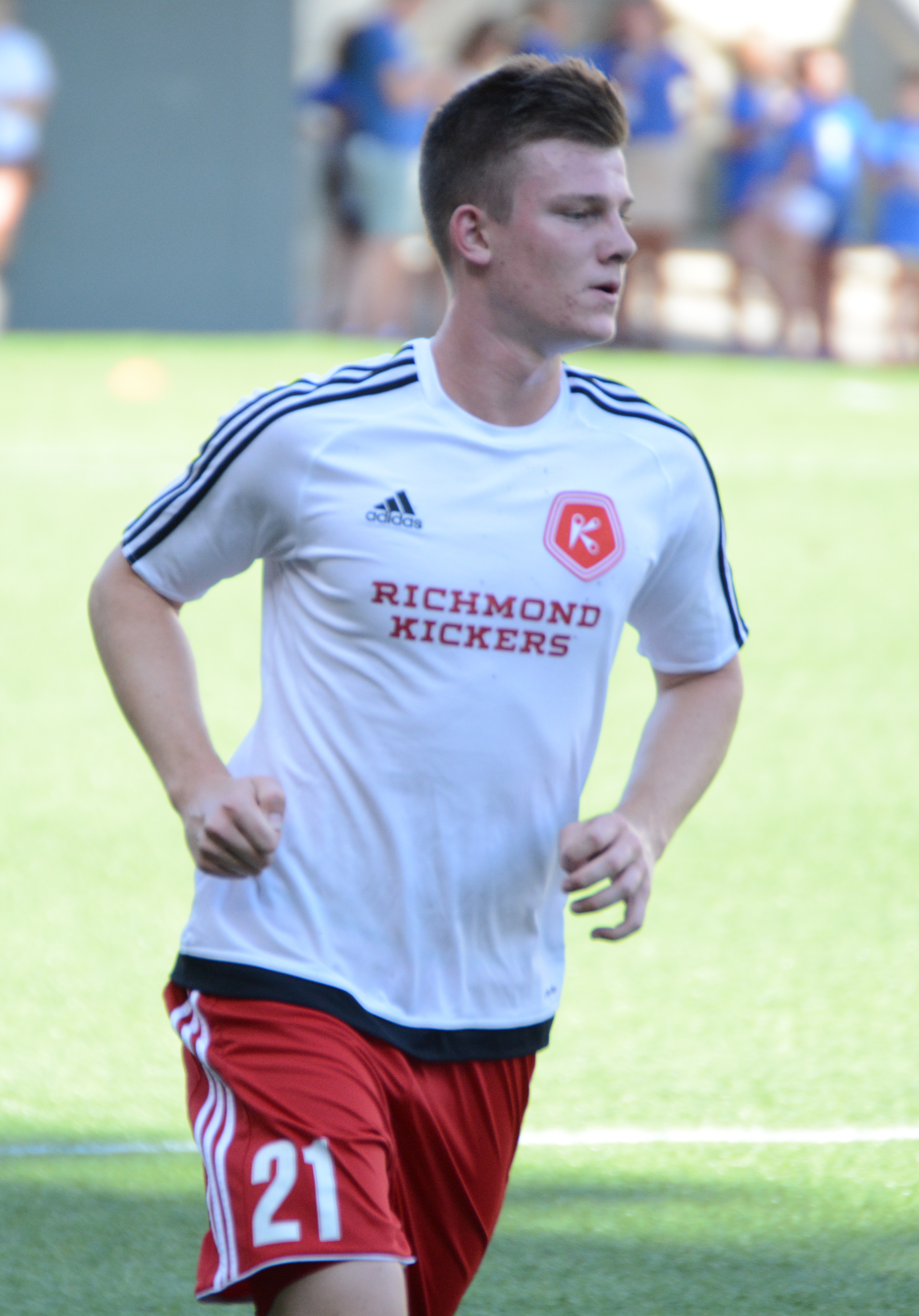 Taken during a USL regular season match between FC Cincinnati and Richmond Kickers at Nippert Stadium in Cincinnati, USA on July 9, 2017.